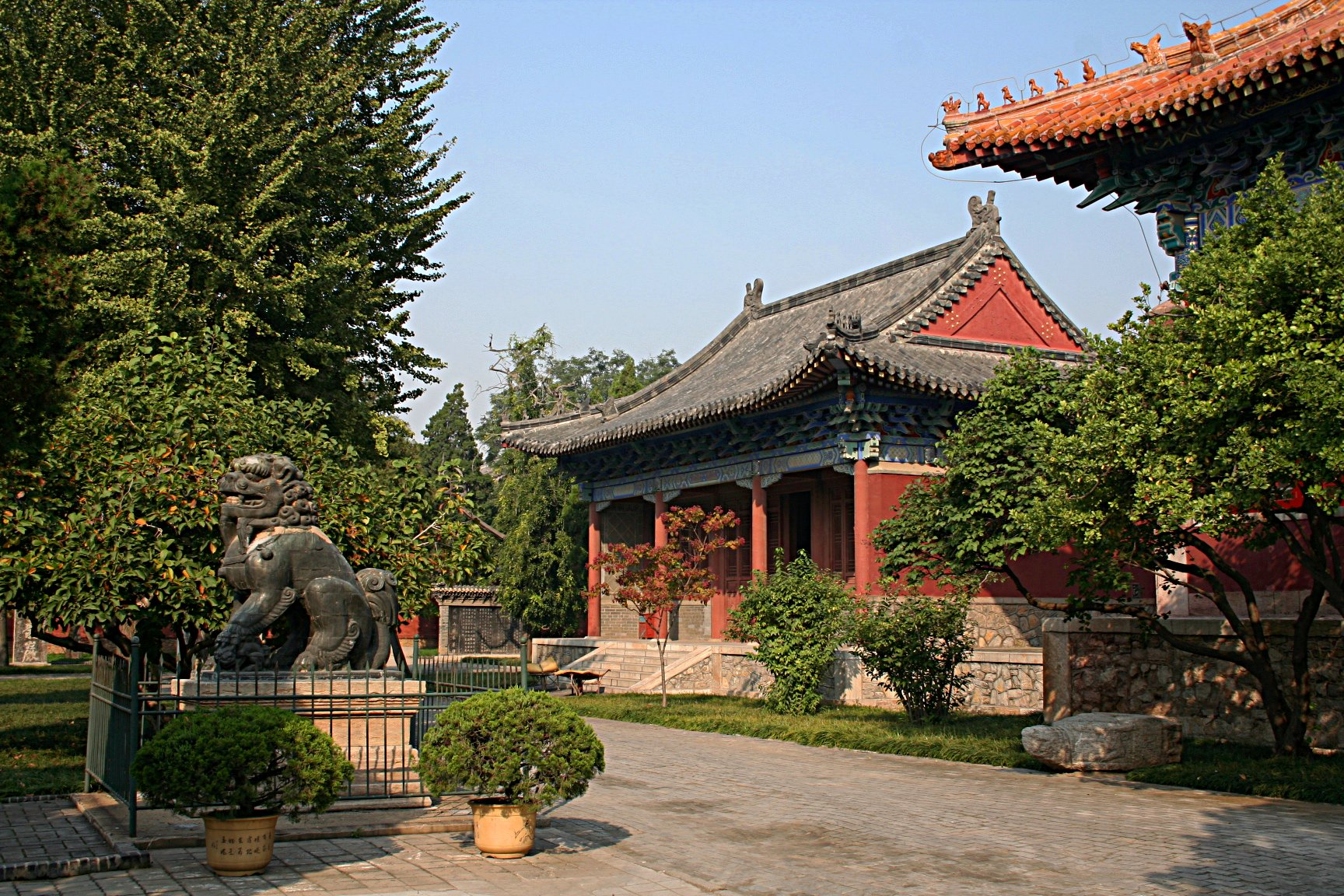 Photograph of the Dai Temple on the foot of Mount Tai, Shandong Province, China